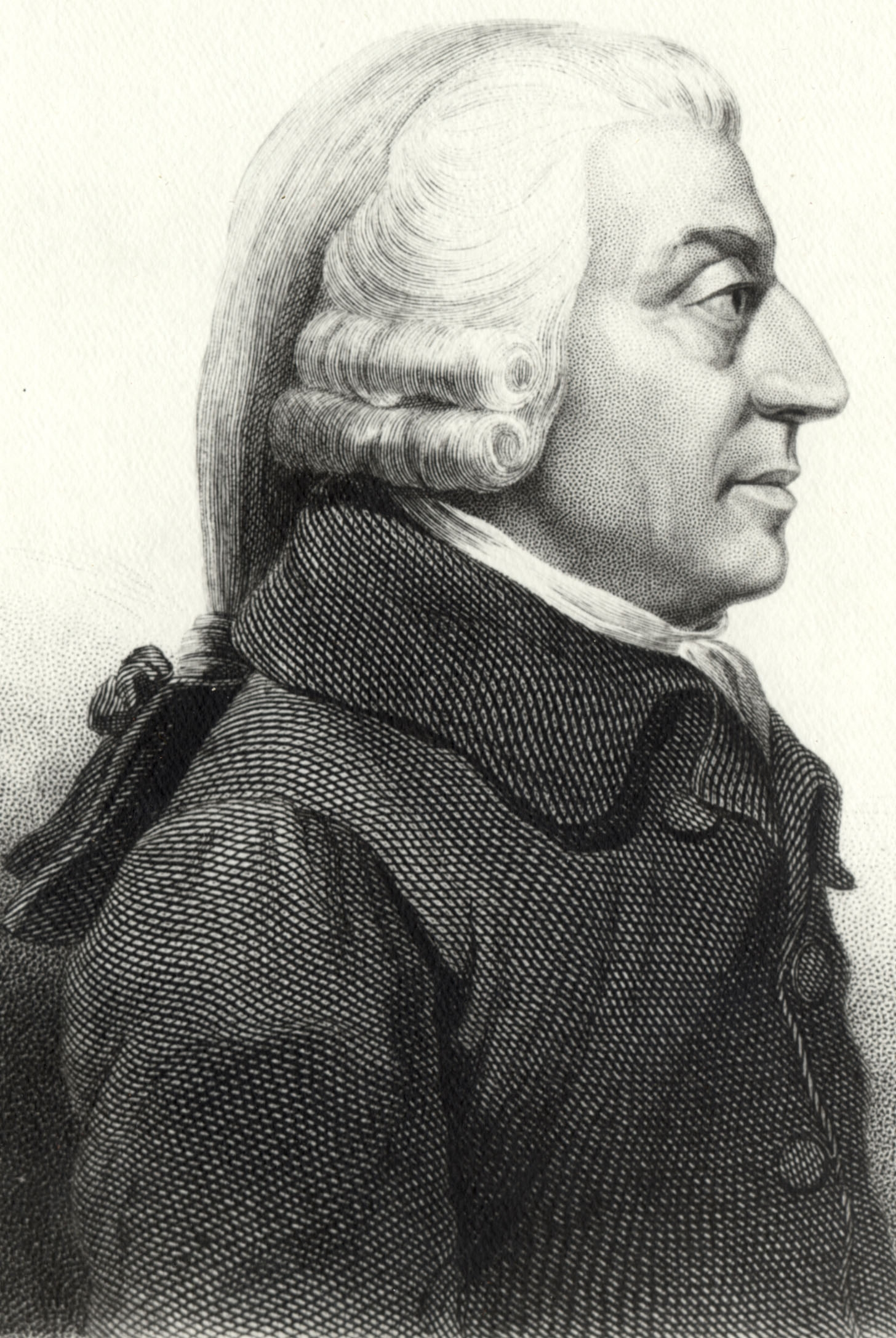 Profile of Adam Smith. The original depiction of Smith was created in 1787 by James Tassie in the form of an enamel paste medallion. Smith did not usually sit for his portrait, so a considerable number of engravings and busts of Smith were made not from observation but from the same enamel medallion produced by Tassie, an artist who could convince Smith to sit.